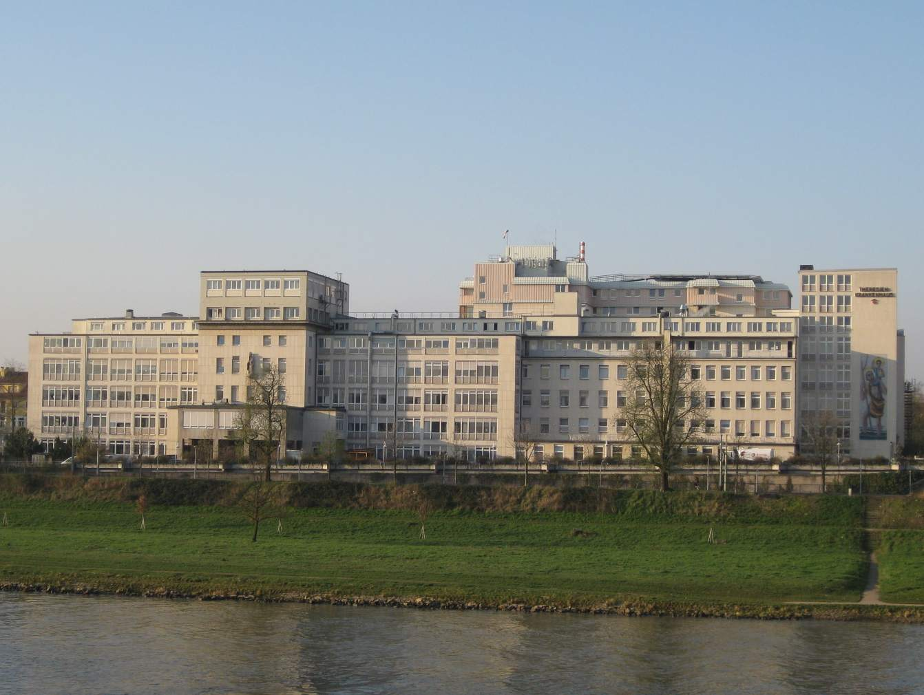 Theresien Hospital Mannheim, Germany